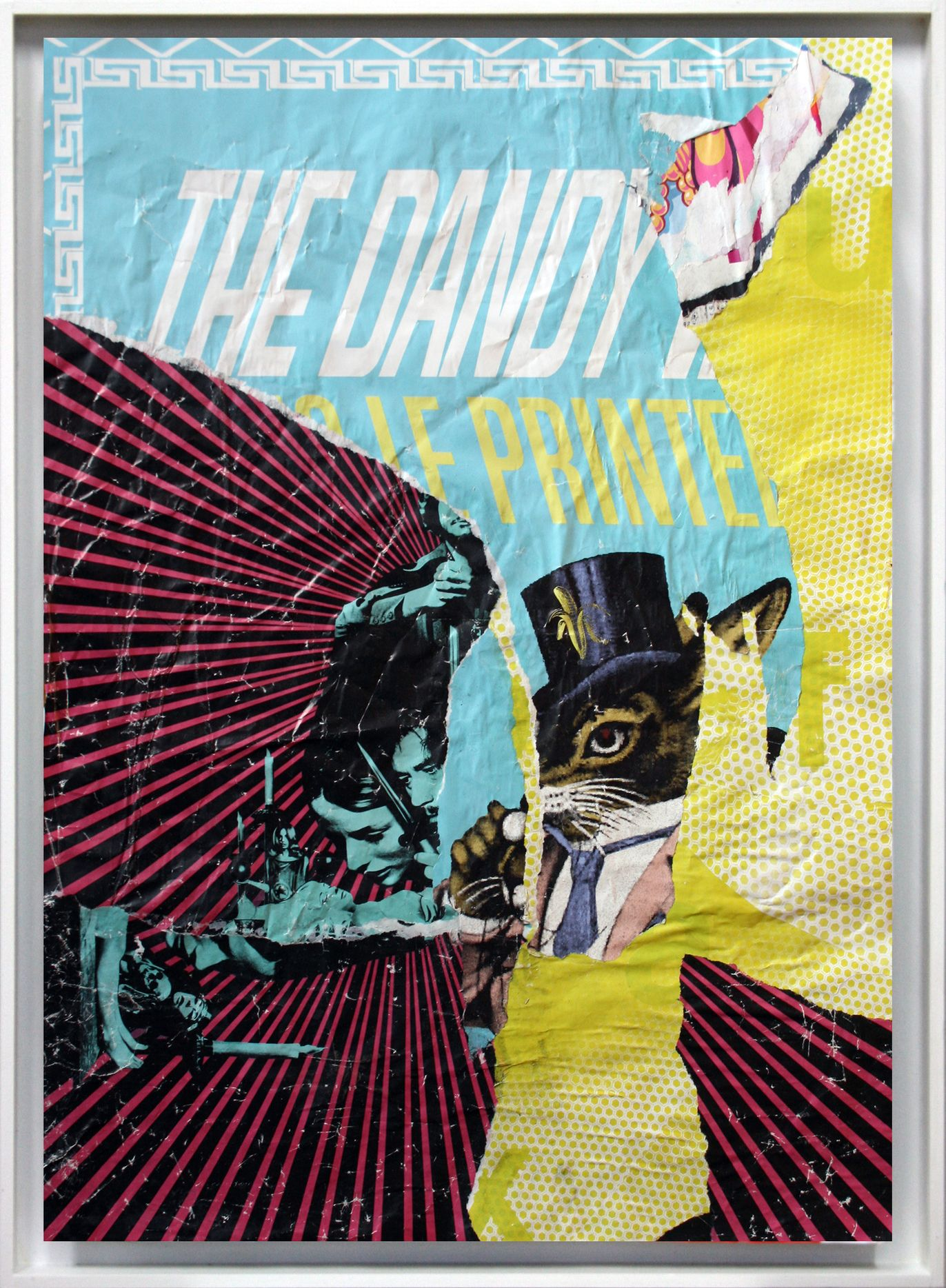 The Dandy Rabbit, Collage/decollage in shadow gap frame, 2015, 65 x 46 cm